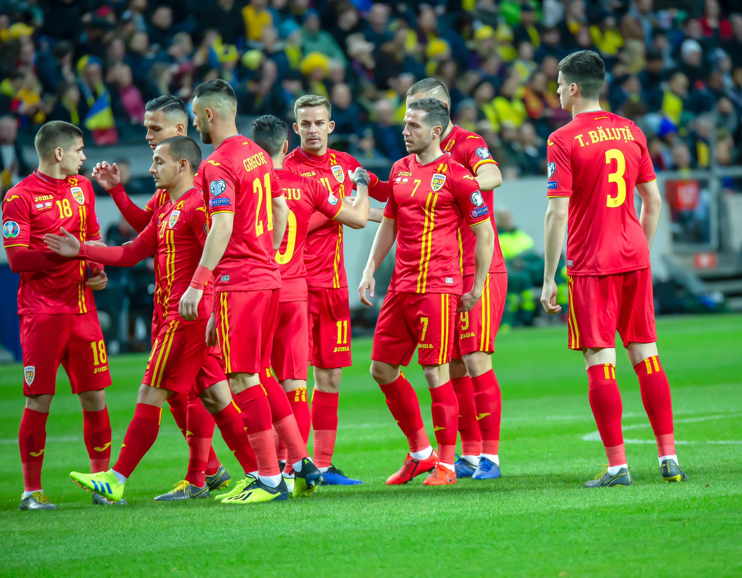 UEFA EURO qualifiers Sweden vs Romania: Romanian national team players. From left to right: Răzvan Marin, Cristian Manea (taller, behind), Alexandru Mitriță (shorter, front), Dragoș Grigore, Nicolae Stanciu (behind, back turned), Nicușor Bancu, Alexandru Chipciu, George Pușcaș (behind), Tudor Băluță